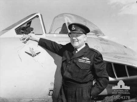 Portrait of Group Captain (Gp Capt) Bill Garing CBE, DFC of Corryong, Vic. He is standing beside a Vampire aircraft of 78 Fighter Wing RAAF; the Wing insignia, featuring a kangaroo, is visible. Gp Capt Garing spent his leave completing five weeks of armament training with the Wing in Cyprus, as well as a course in instrument flying on Meteor aircraft. Afterwards he returned to London to take command of the RAAF's Overseas Headquarters.